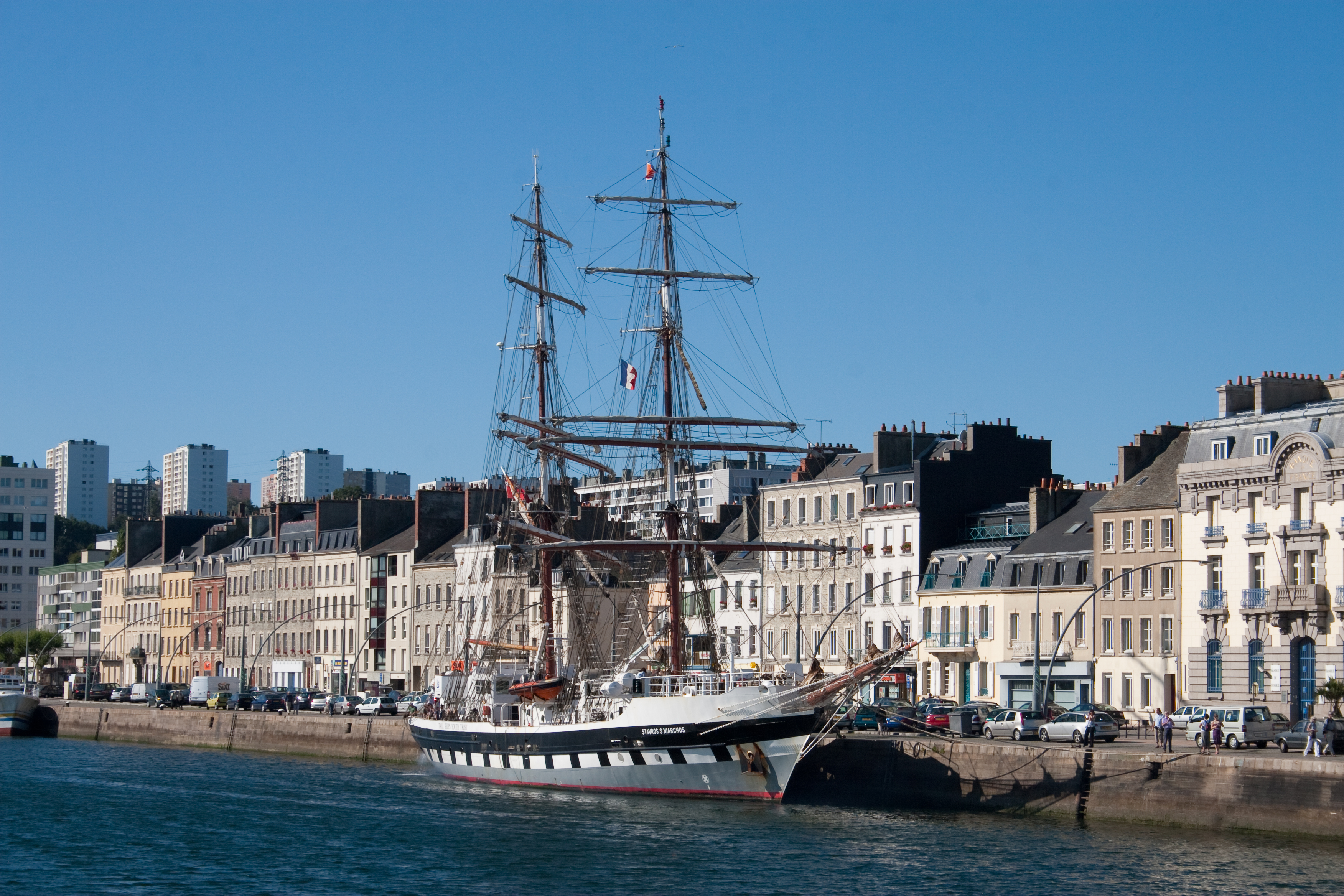 Tall ship Stavros S Niarchos in Cherbourg harbour.